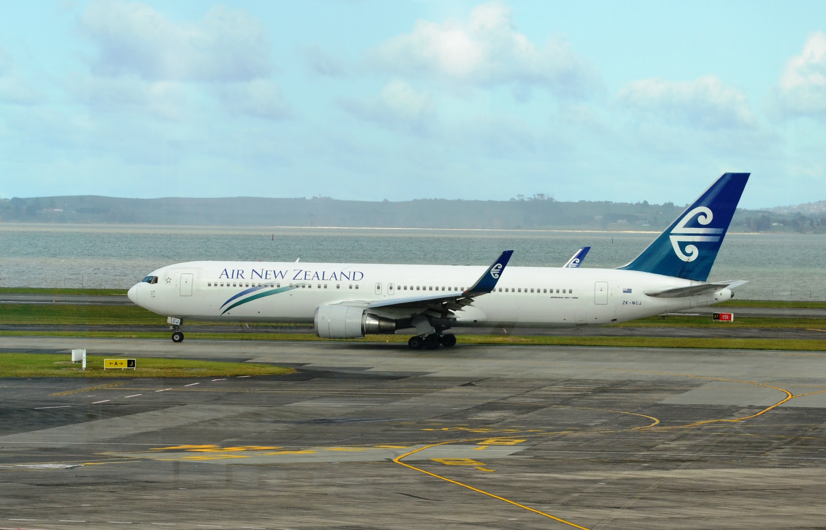 Air NZ 767 ZK-NCJ Heading out to the runway in Auckland